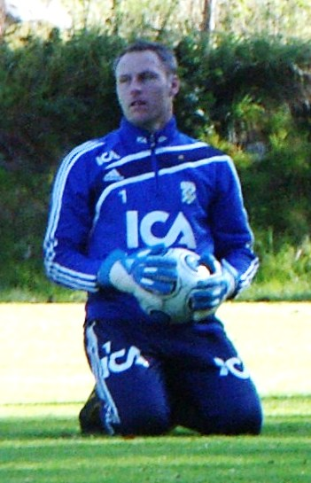 Danish goalkeeper Kim Christensen, at the IFK Göteborg training ground "Kamratgården".